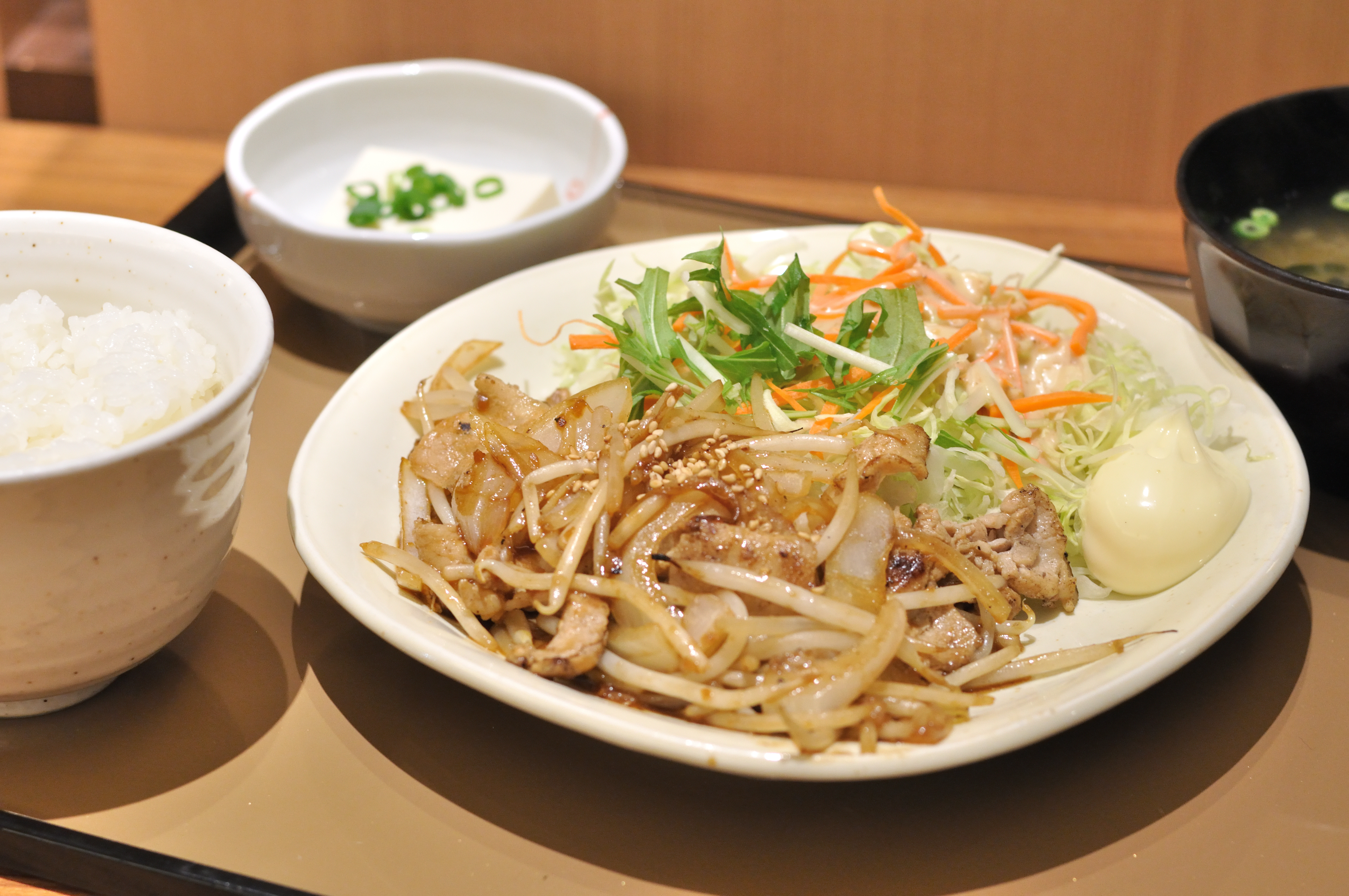 Pork Shogayaki being sold at Yayoi.